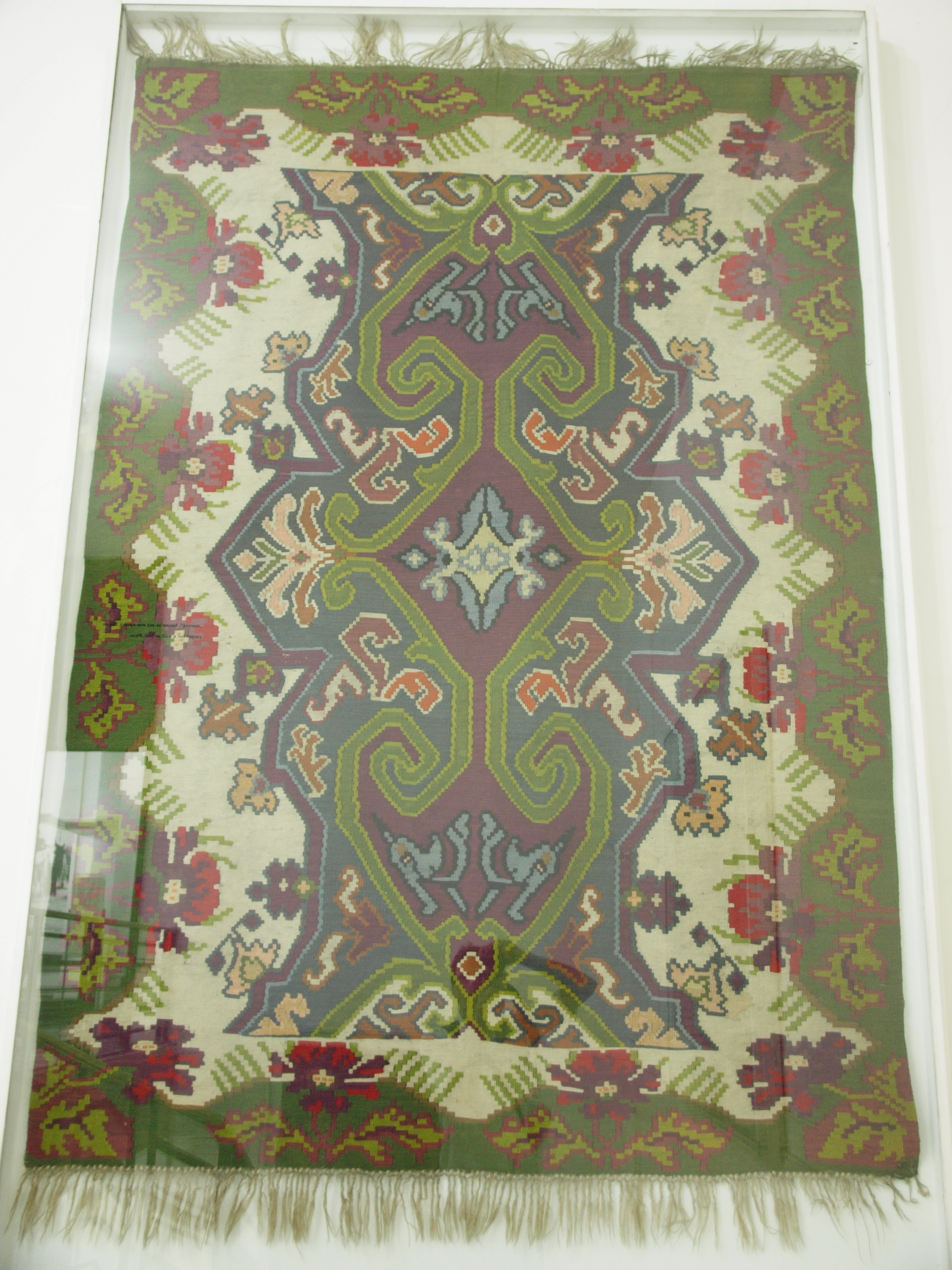 Pirot kilim damsko srce likovni Ethnographical Museum Belgrade